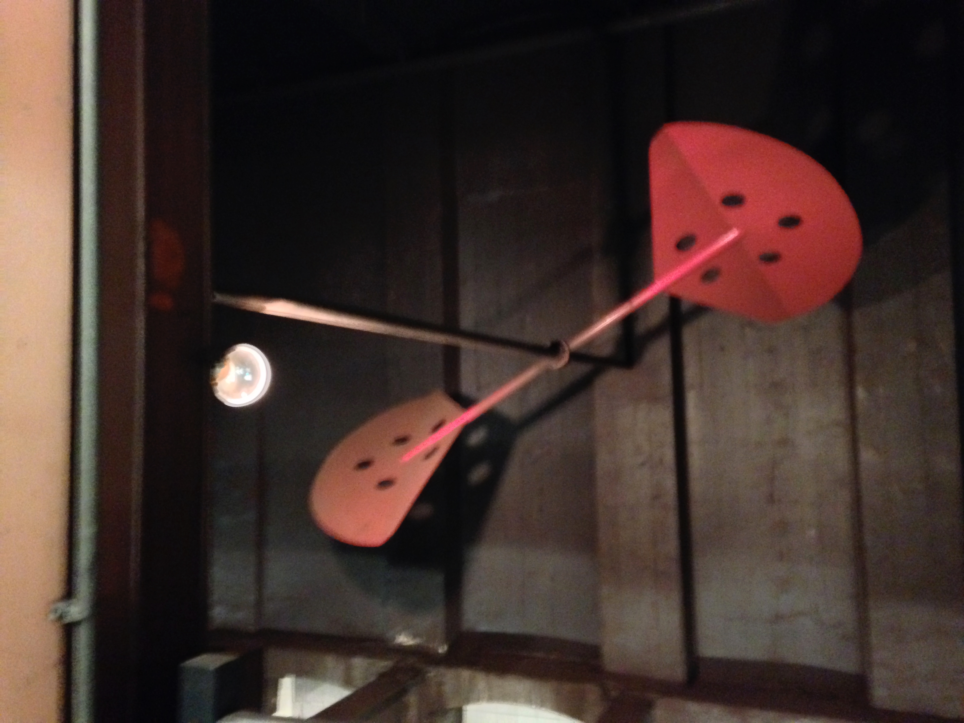 Detail of "Yab-Yum", a steel propeller-like sculpture hanging above the northbound local tracks of the 34th Street-Herald Square IND station.